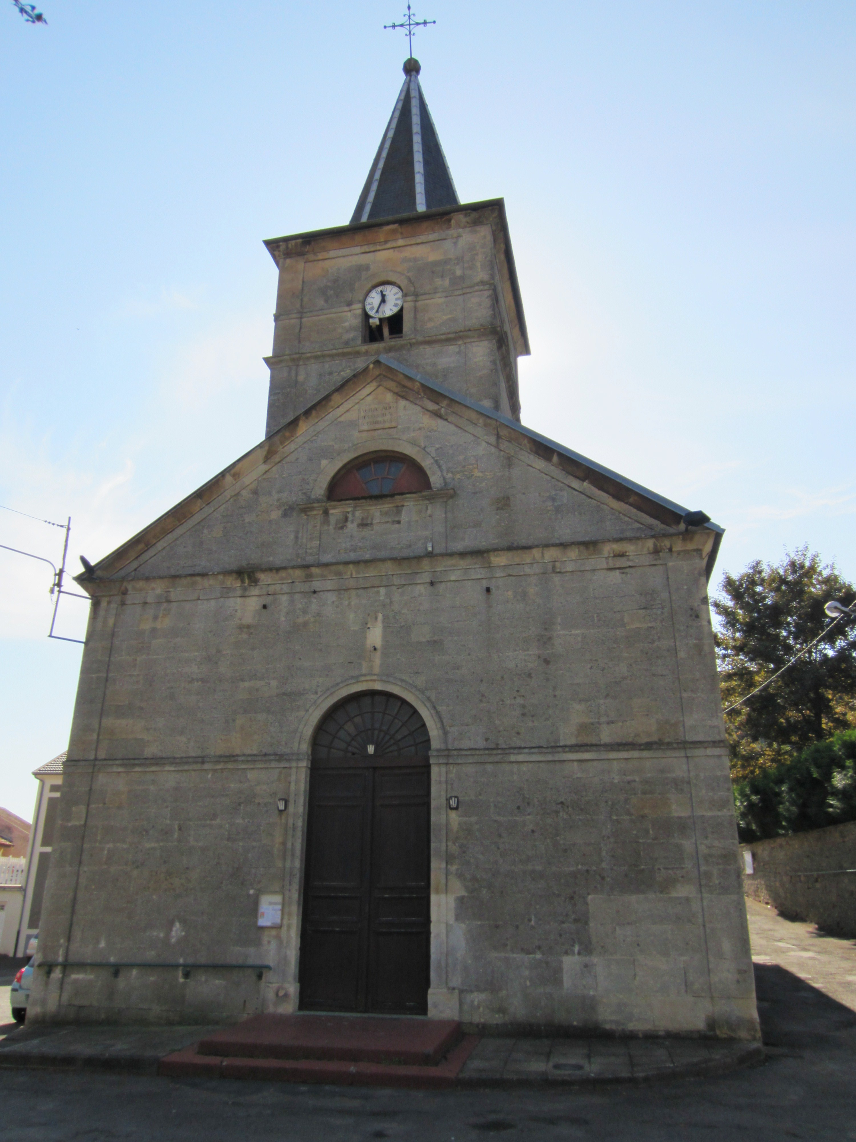 Description nouvelle eglise Thil Date16 September 2011Sourcemon appareil photoAuthorAimelaimePermission (Reusing this file) nouvelle eglise Thil